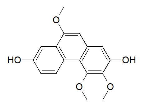 Chemical structure of gymnopusin